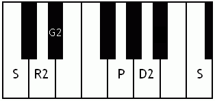 Musical notes of the Shivaranjani ragam in Carnatic music shown in a keyboard layout. See swaras in Carnatic music for details on the notation used. In this image C is used as Shadjam for simplicity sake only. In Carnatic music any note can be the tonic note (sruti), which is taken as Shadjam note. This image is for use in Wikipedia ragam articles and articles related to Carnatic music.